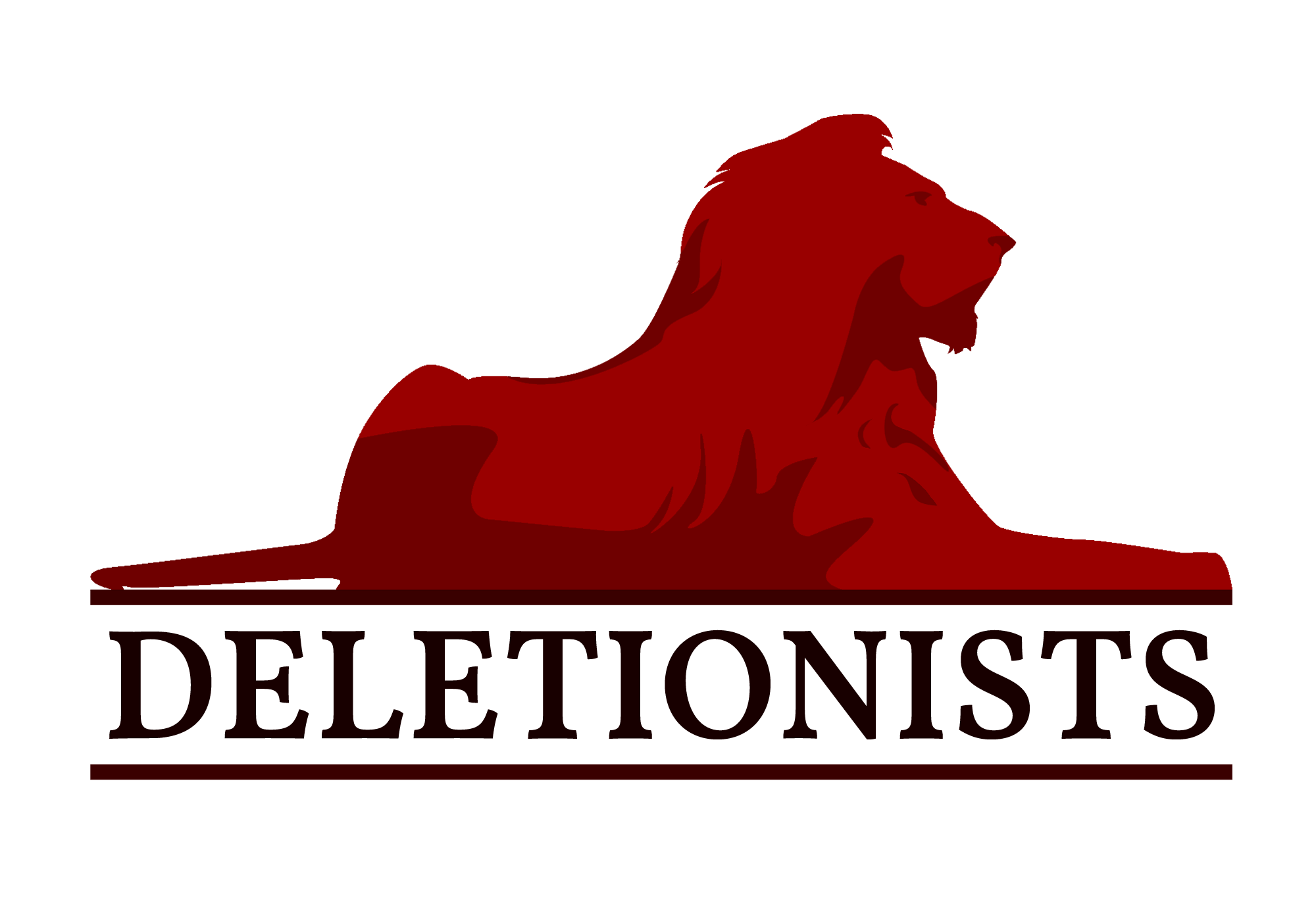 Proposal Logo of the Association of deletionst wikipedians: The Deletionist logo is a red lion on guard. The deletionist philosophy is symbolized by this animal, guardian of the Wikipedia’s purity. His fierceness reflects the feelings of deletionist wikipedians, his regality the nobility of the aim they pursue.